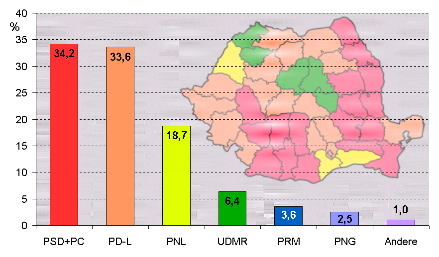 Results of parliamentary elections in Romania 2008-11-30 Votes Senate